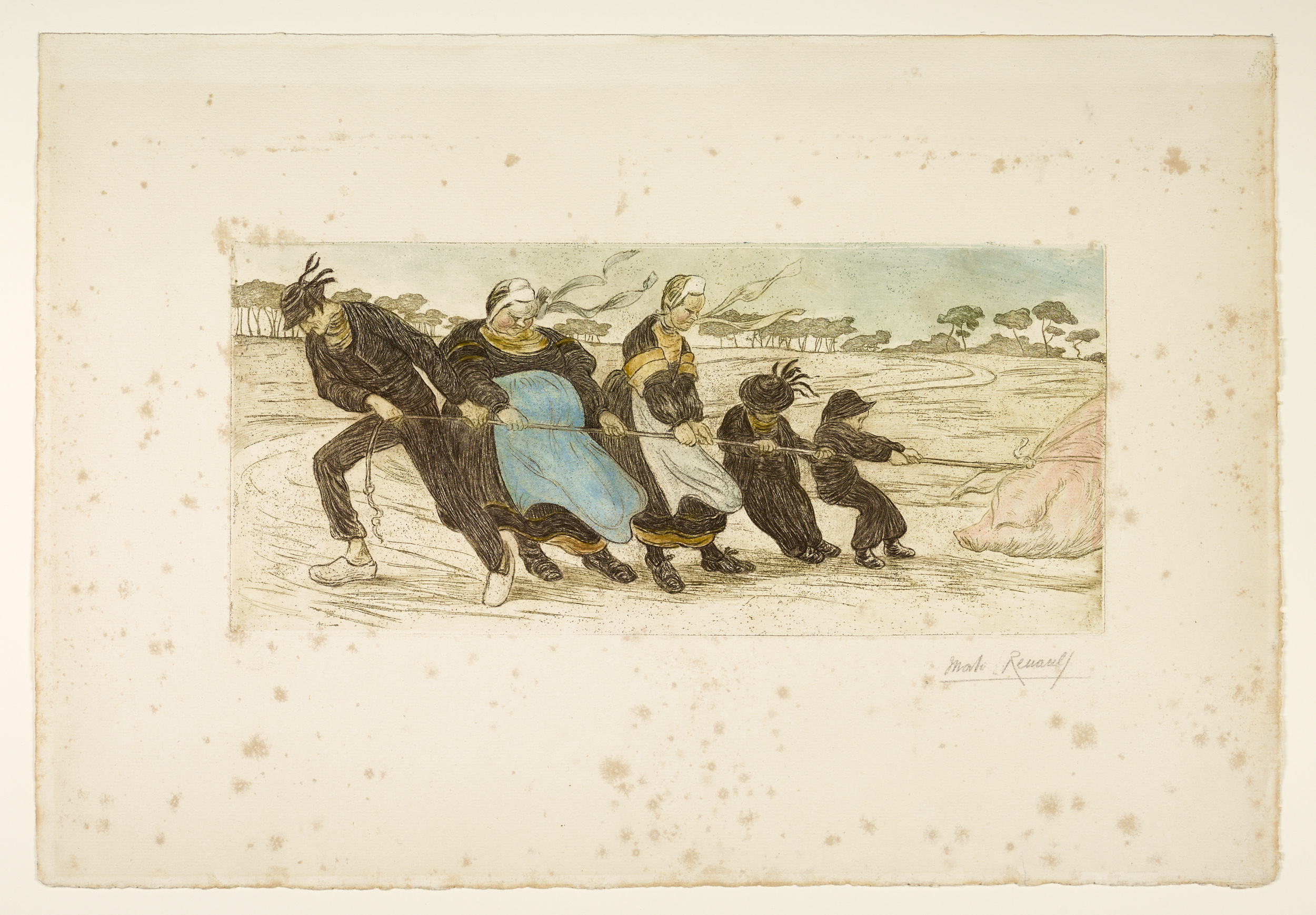 Bigoudens family pulling a big pig, color etching